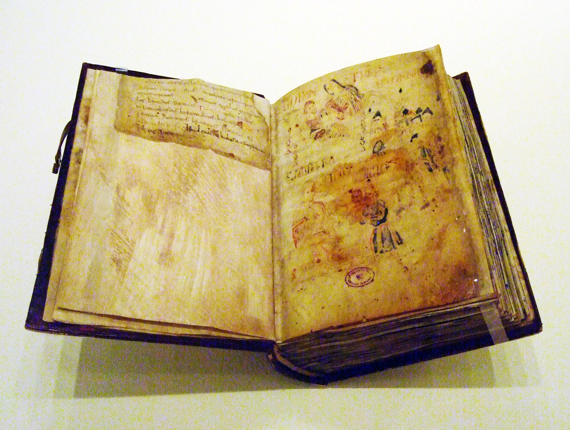 Bound in this Codex legum Langobardorum et capitularia regum Francorum is, along with other text parts, the Origo gentis Langobardorum. The peculiarity of this manuscript is the unique figural illustrations of the history of the Lombards. In the upper part of the image, the god Wotan props himself up in his bed. Freya, who stands at the edge of her husband's bed, points with her left hand to a band of armed men and women of the Winiler people (the earlier name of the Lombards), who like the gods are named by a caption. This scene is the only pictorial representation known to date of the naming of the Lombards. In the lower part of the image is an additional illustration that is of some importance for the formation of the Lombards. The "wise woman" Gambara is seated on a throne in the left half of the image, and before her stand her two sons Ibor and Agio. As in the upper image, these persons are named in captions. Gambara is of twofold importance for the genesis of the Lombards. First, she seeks contact with Freya and asks for her help for her people. Second, the Lombards leave the island of Scadanan and begin their legendary migration under the leadership of Gambara and her sons. Photographed while on display from 22 August 2008 to 11 January 2009 in the exhibition "Die Langobarden. Das Ende der Völkerwanderung" at the Rheinisches LandesMuseum Bonn. On loan from the Biblioteca del monumento nazionale della Badia di Cava (Codex no. 4), Salerno.